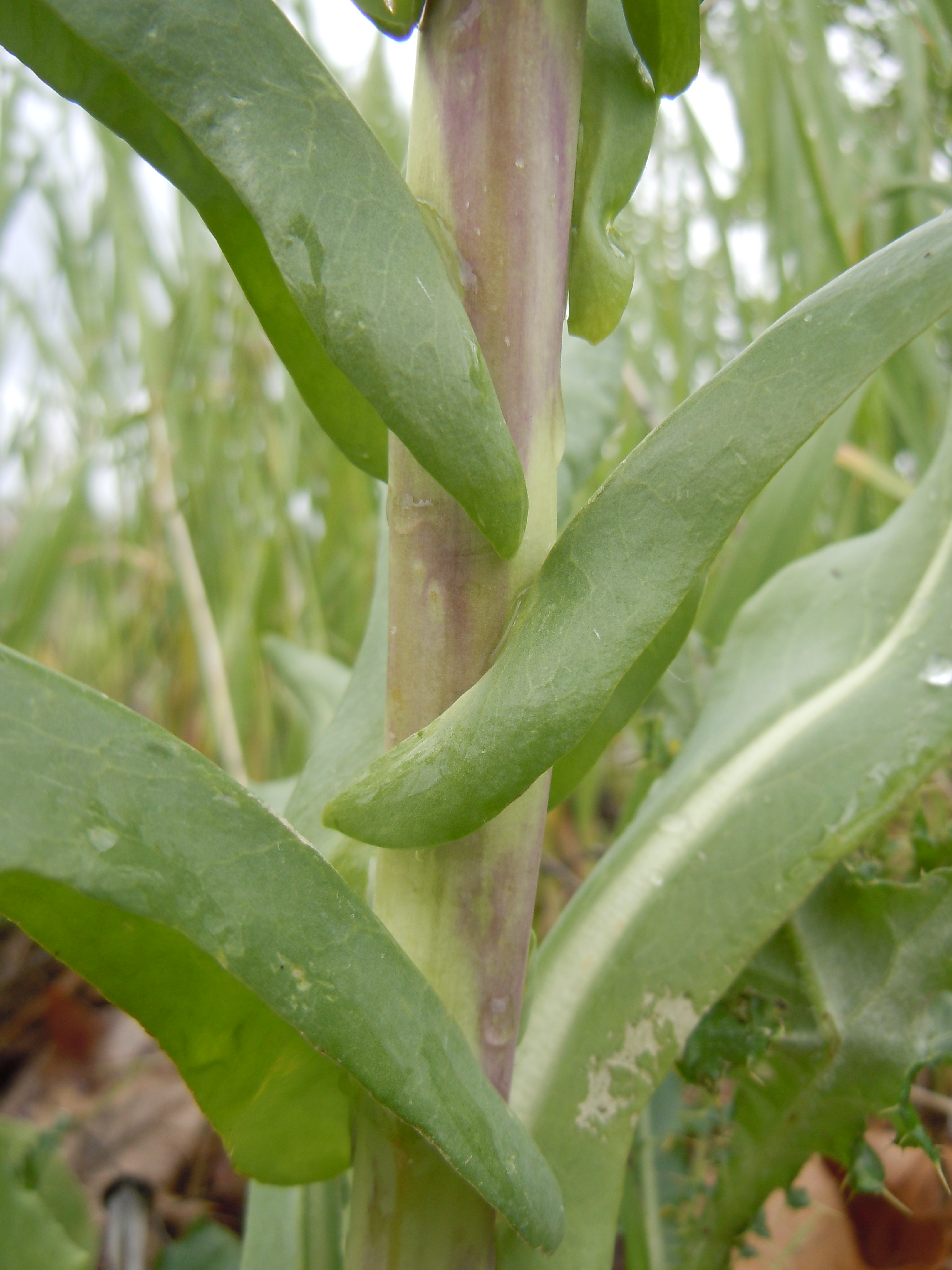 The glaucous stems and clasping leaves are diagnostic.